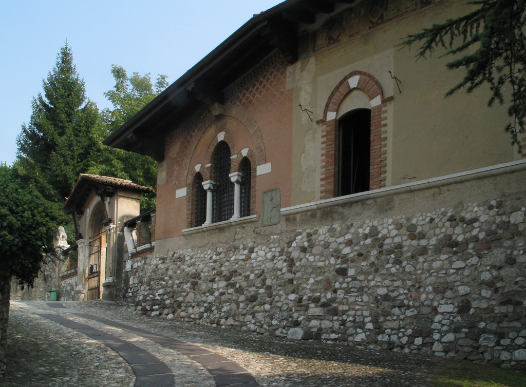 Casa des Podestà, located in the town of Lonato near Lake Garda in Italy